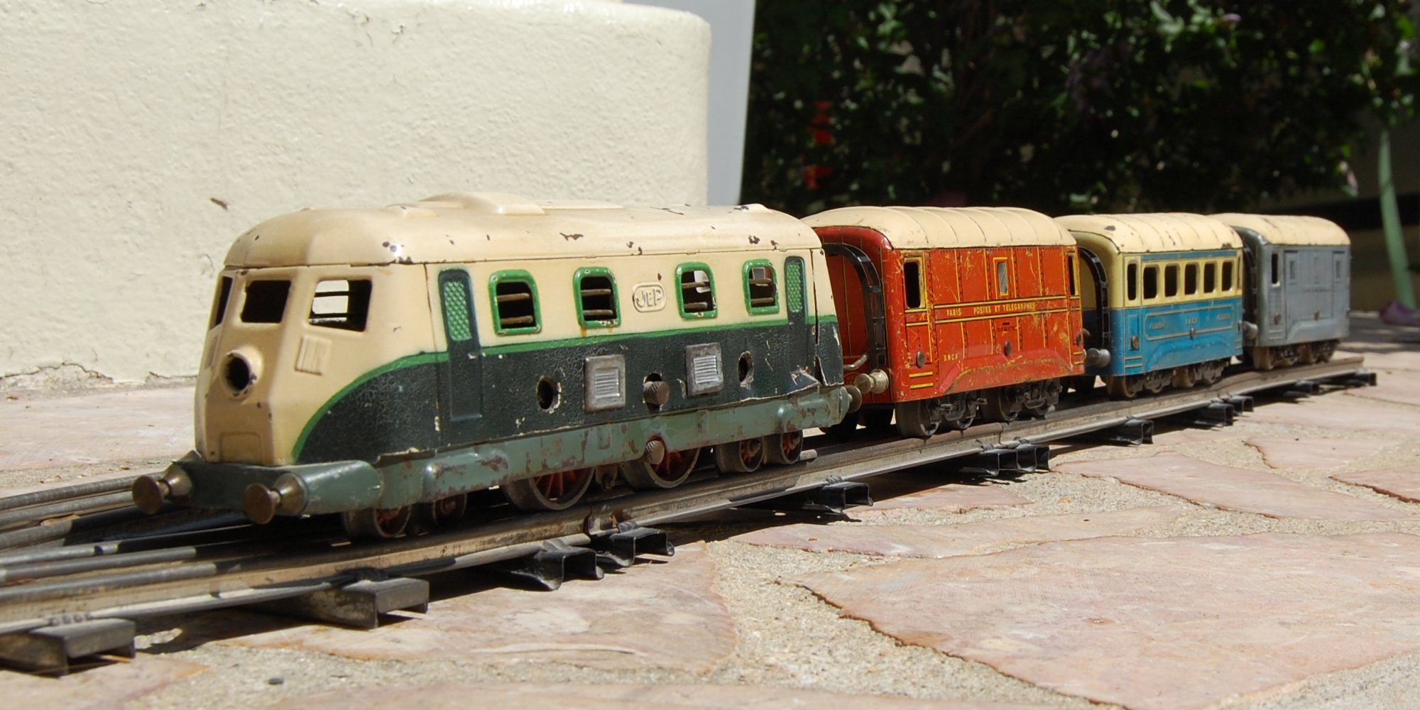 JEP O scale toy.